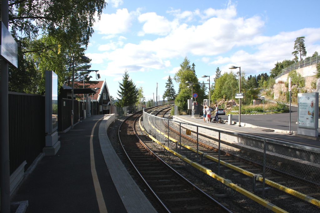 Voksenlia Metrostation seen from rail-platform 2. Faced towards Lillevann.